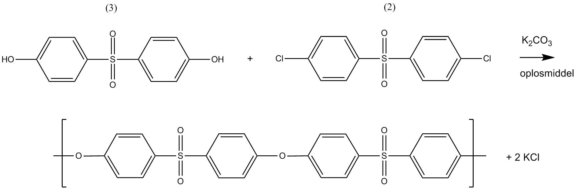 polyethersulphone polymerisation reaction